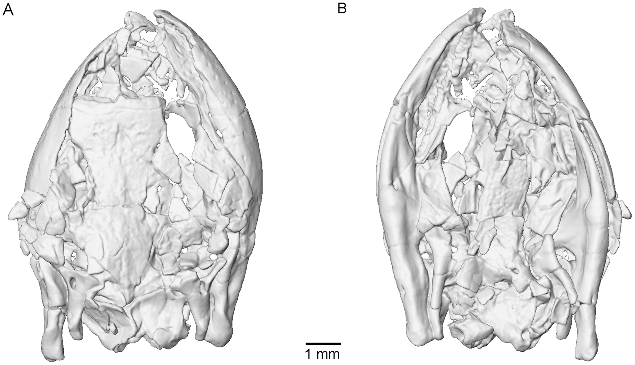 Volume rendering of the µCT data of the holotype of Eocaecilia micropodia (MNA V8066). A, dorsal view. B, ventral view.